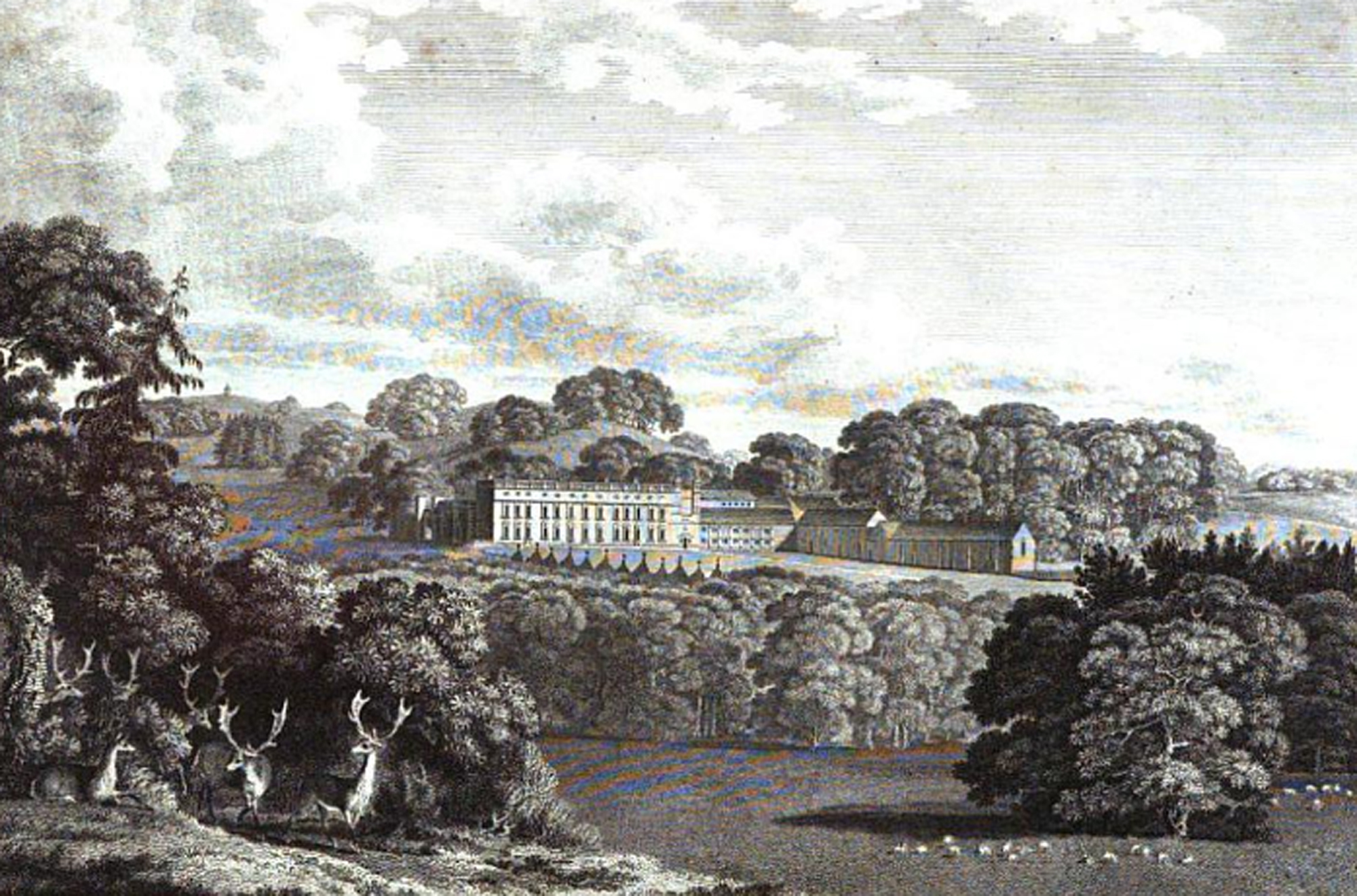 Ashton Court, Bristol circa 1790